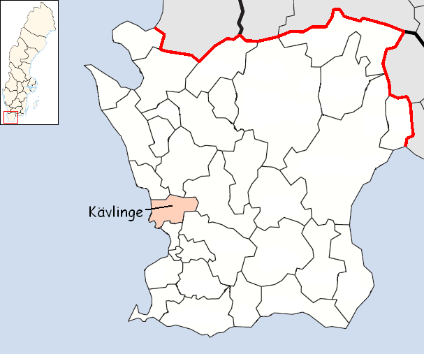 Kävlinge Municipality in Scania, Sweden Designed by me. Mere outlines are a PD source from